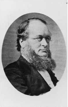 Photograph of Richard Hanson, 4th Premier of South Australia, and Chief Judge in the Supreme Court of South Australia.